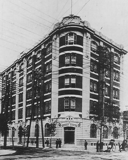 Okuragumi building in Taisho era